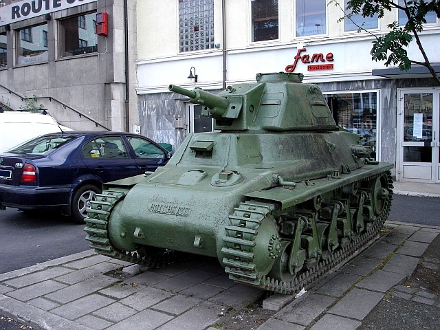 City Narvik, Norway